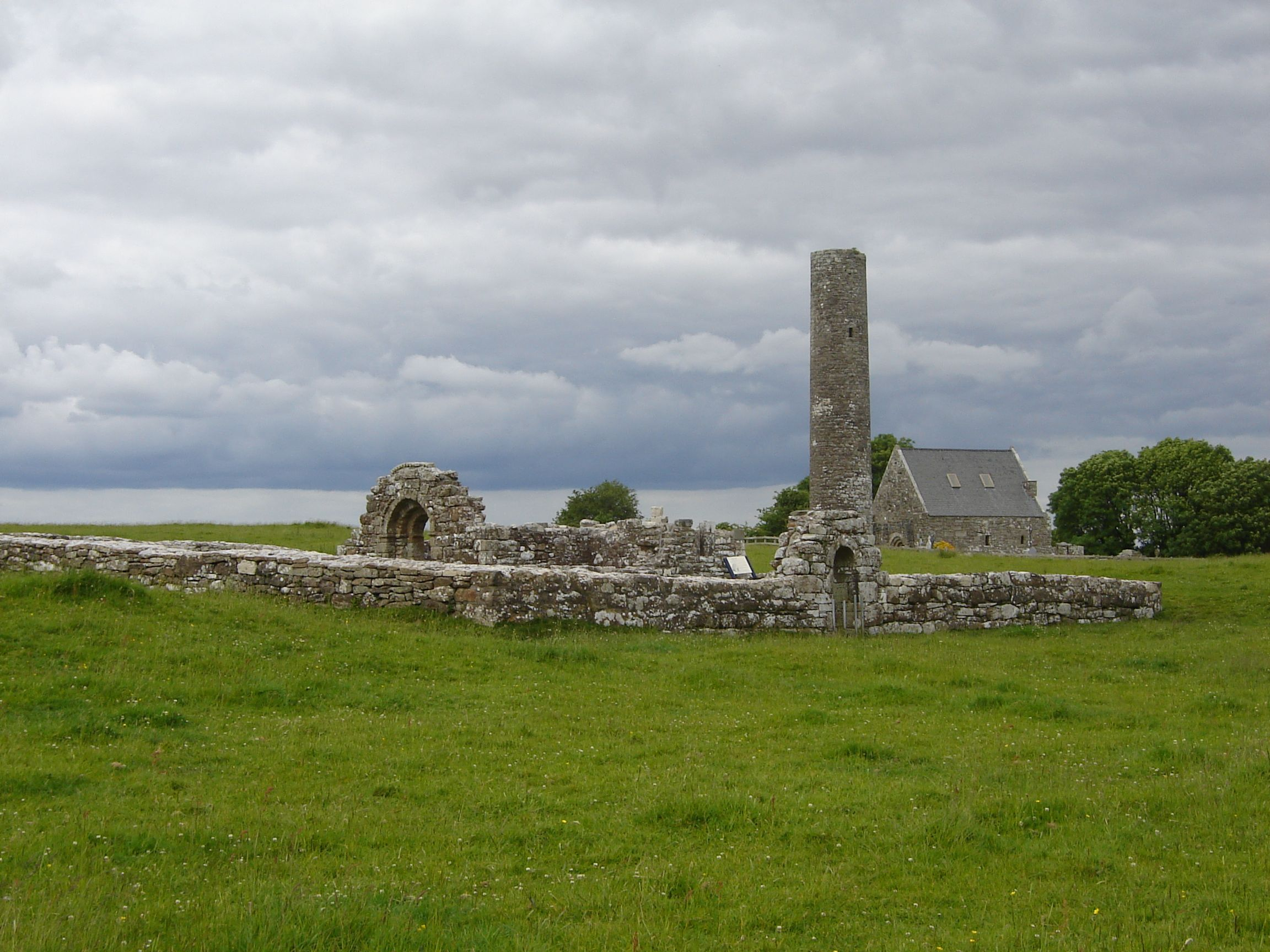 Holy Island (Inish Cealtra), Lough Derg, near Mountshannon in County Clare, Ireland. St. Brigid's church and St. Caimin's church and tower.